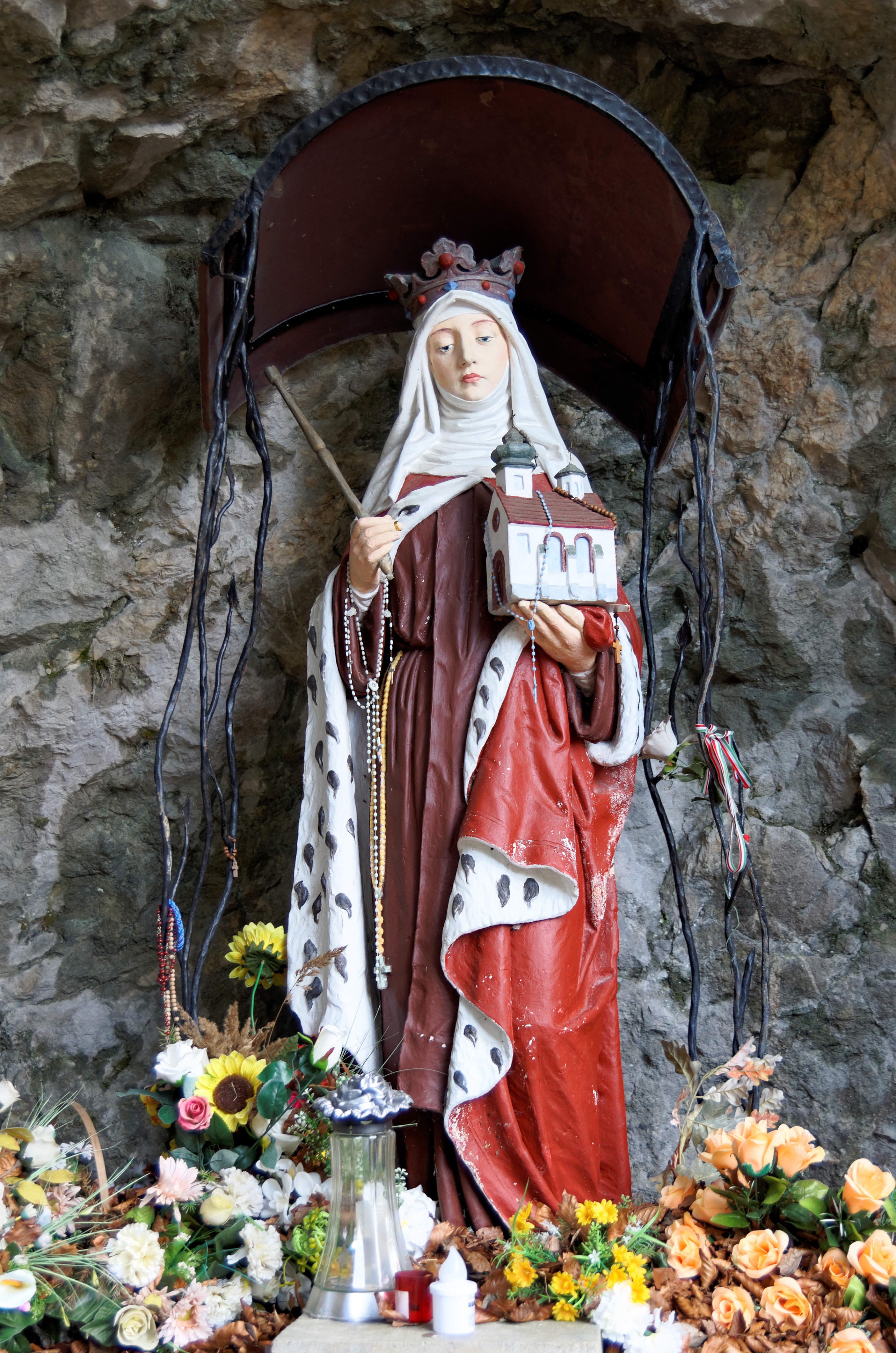 Statue of Saint Kinga in Pieniny Castle